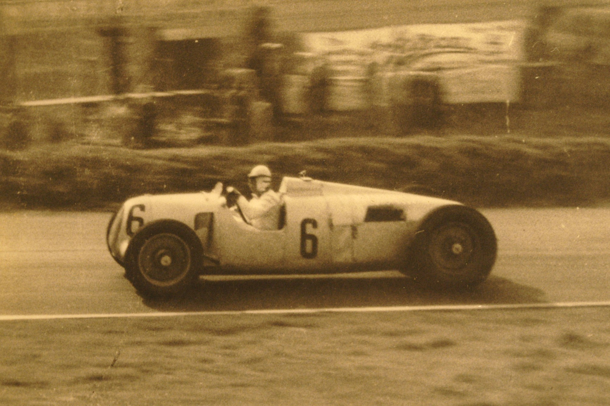 Donington Grand Prix, 1937. Rudolf Hasse driving an Auto Union.